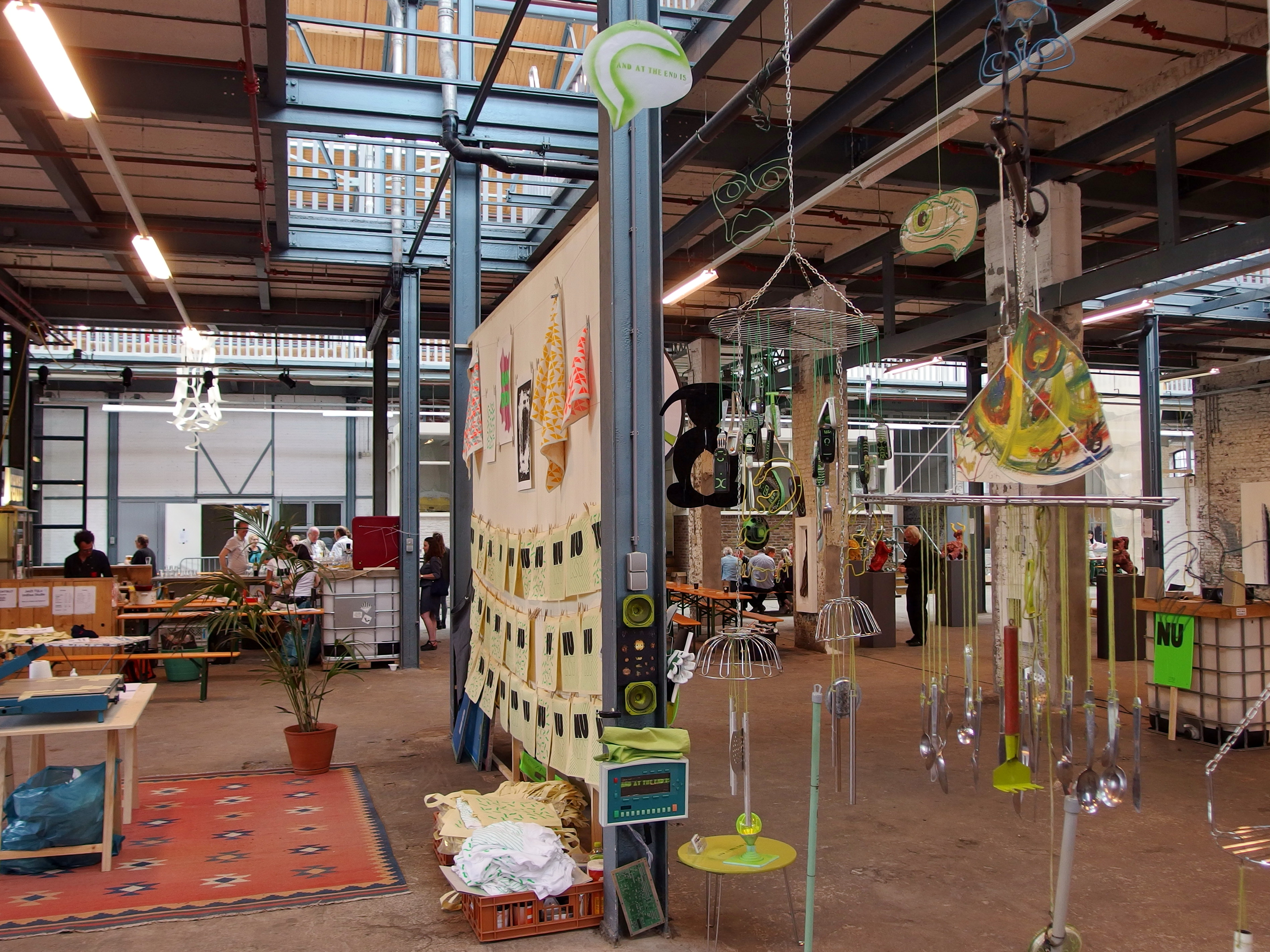 20140525 in Maastricht; Timmerfabriek.